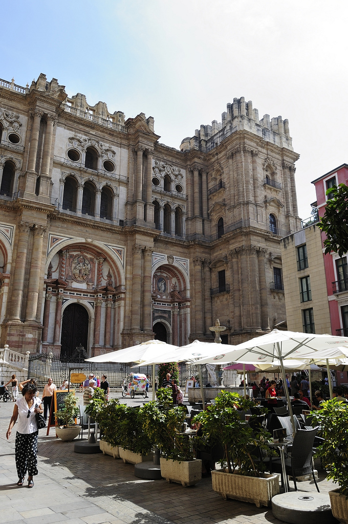 Bishop Square, Malaga, Spain.